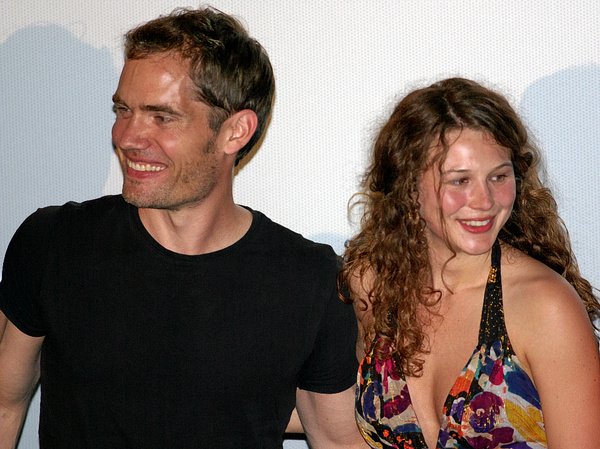 German film director Christian Zübert and actress Anna Maria Sturm at Munich Film Festival 2010.